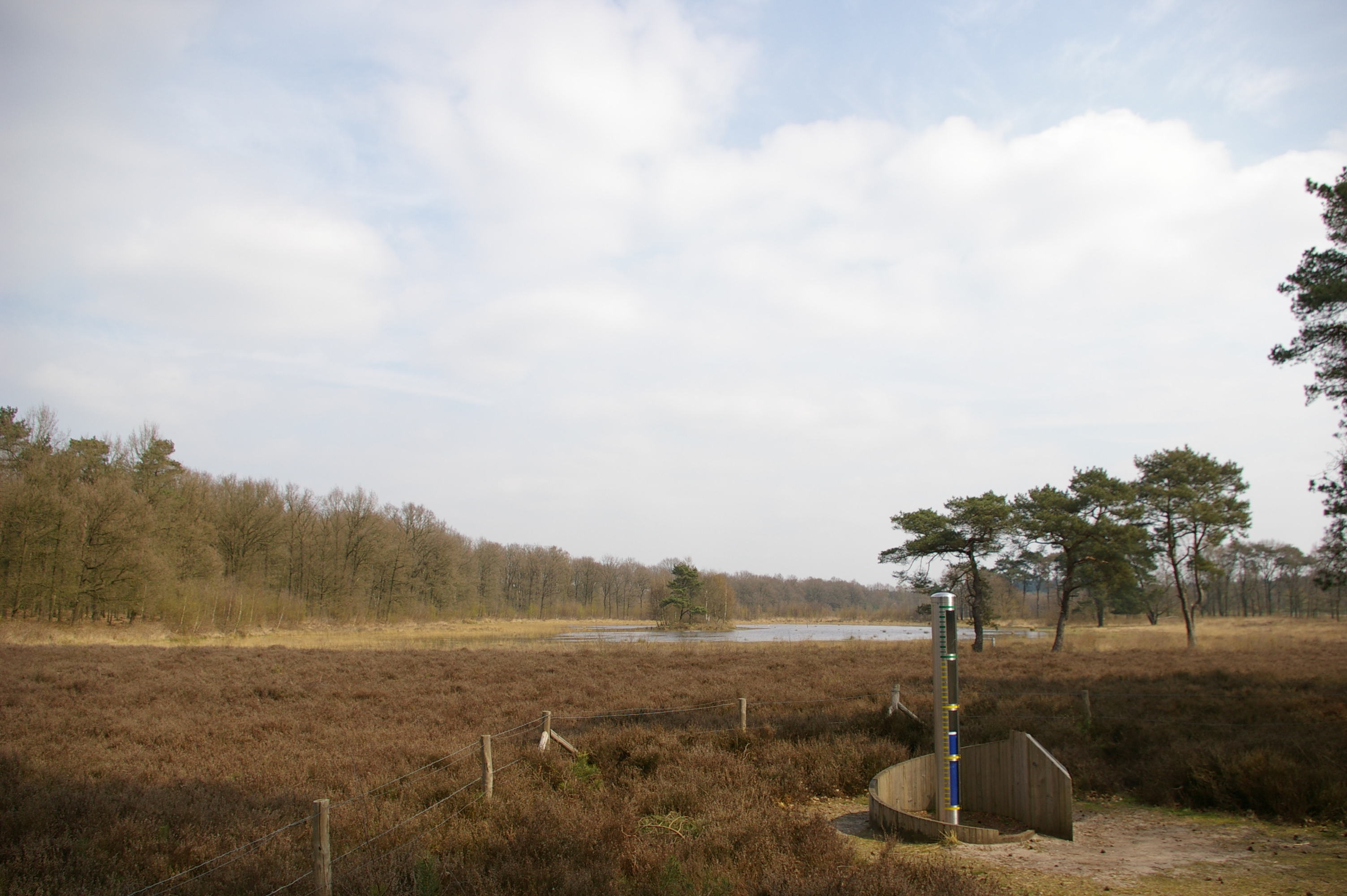 Egelmeer, a small lake in National Park Utrechtse Heuvelrug, the Netherlands. The object in the foreground shows the level of the groundwater.